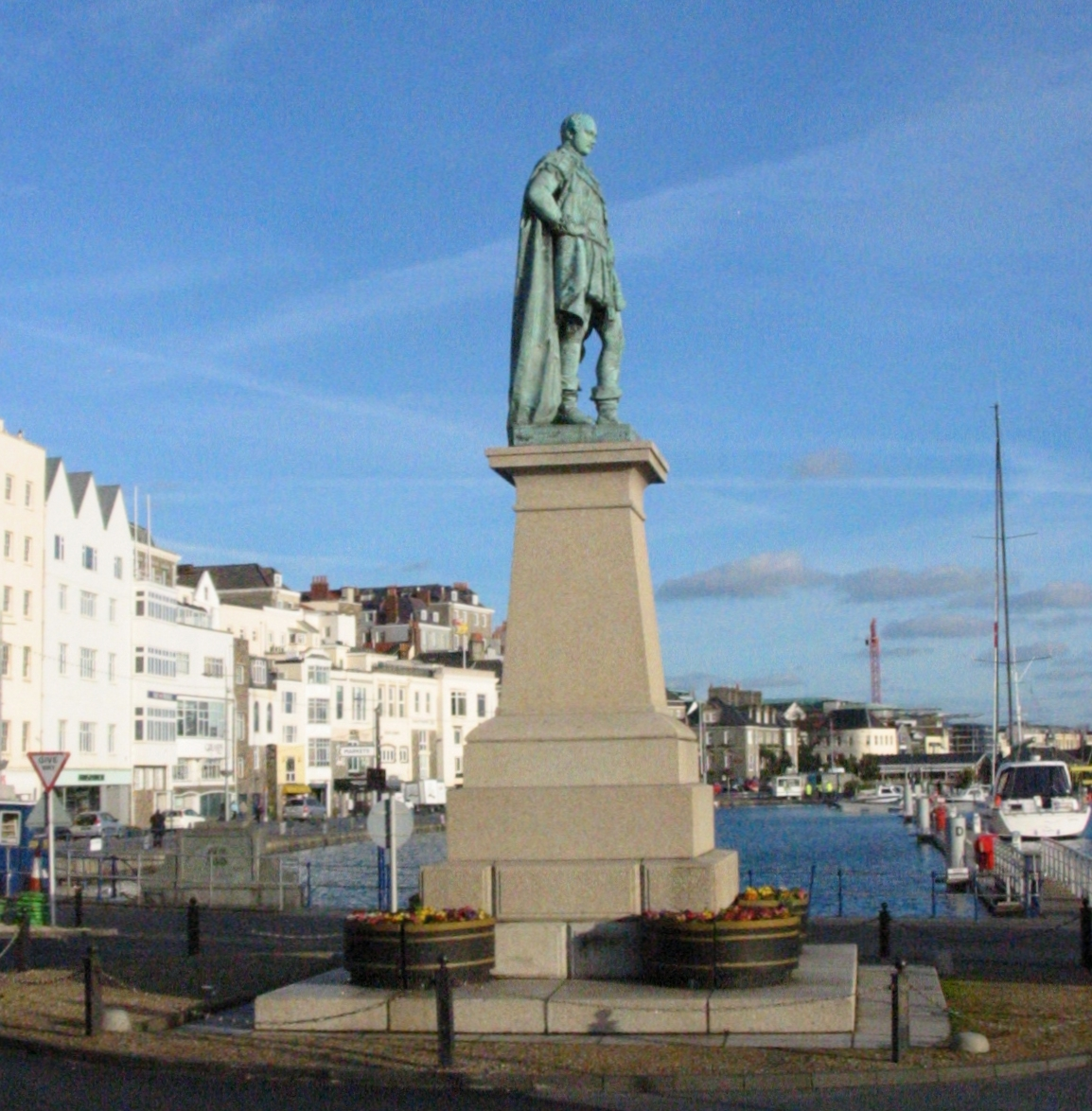 Saint Peter Port, Guernsey